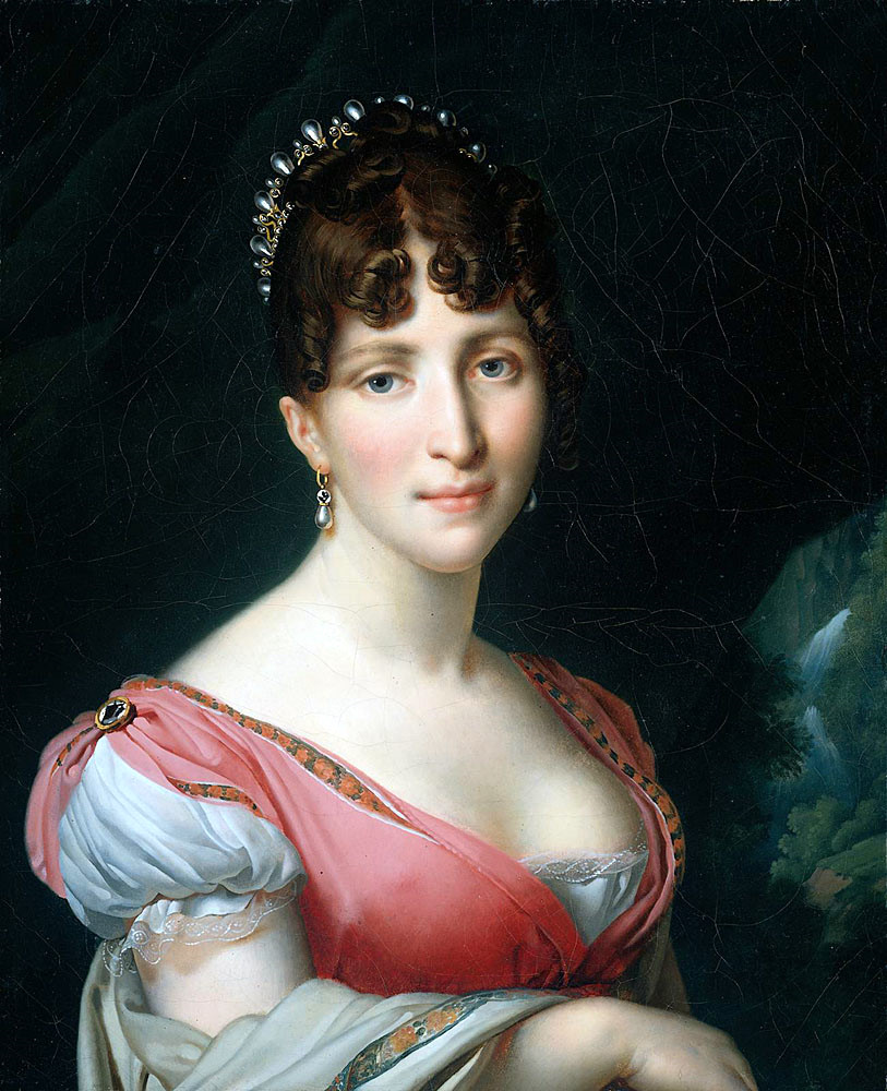 Hortense-de-beauharnais-anne-louis-girodet-de-roucy-triosson